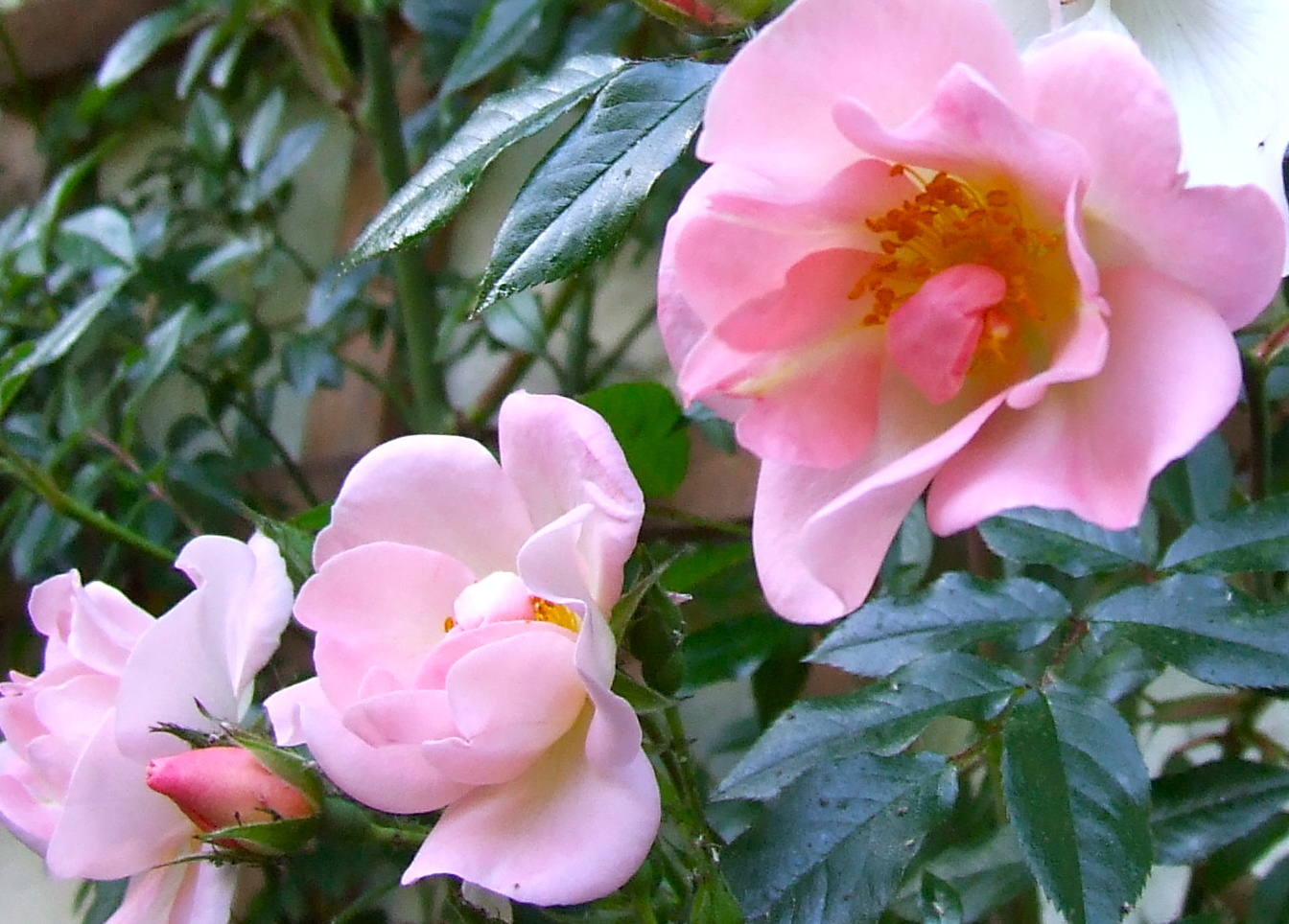 Chris Warner patio climber 'Open Arms'